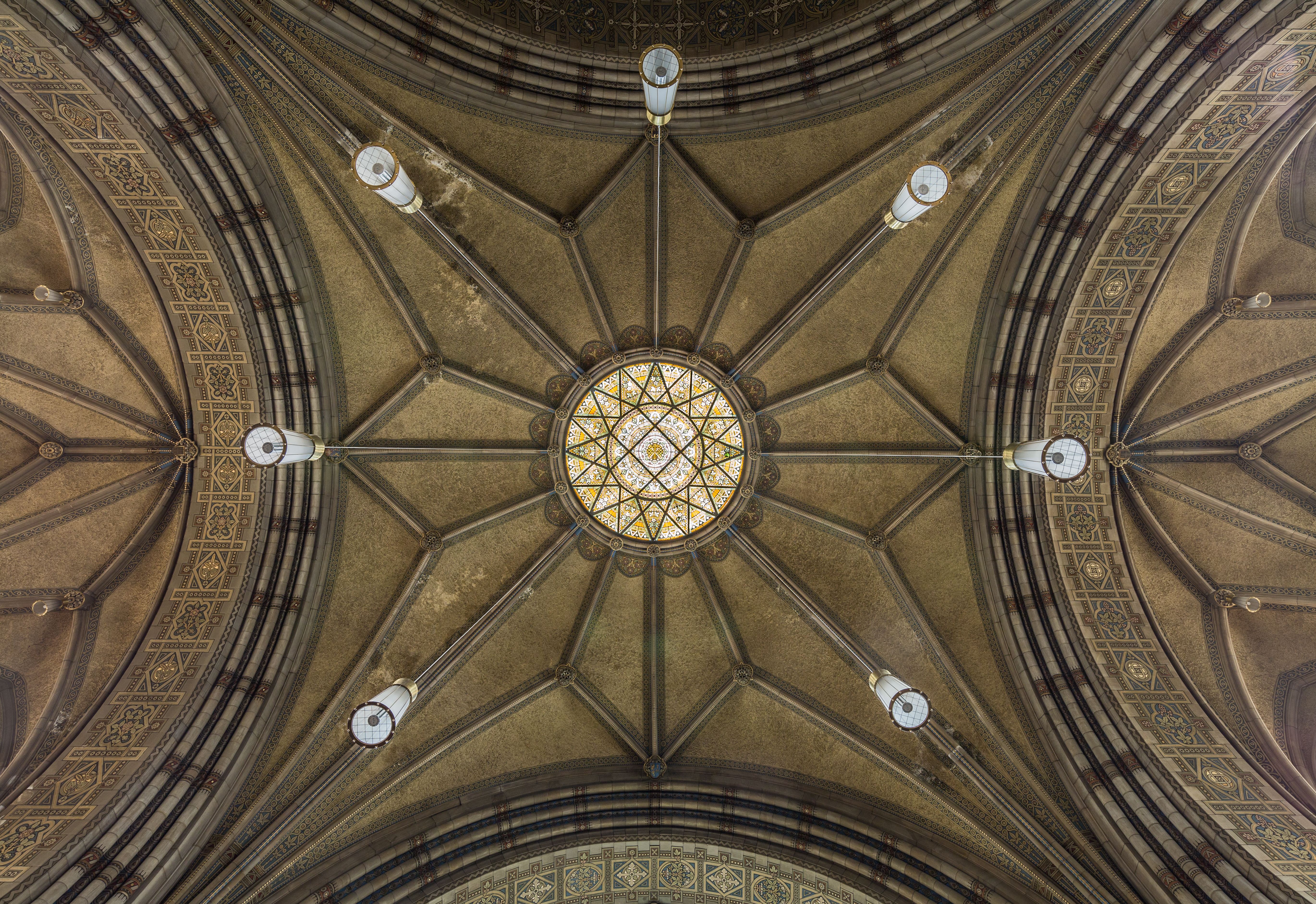 Ringkirche (Wiesbaden)